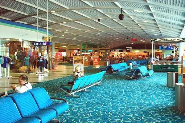 Cairns airport boarding room